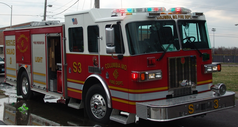 A photo of Columbia Fire Department Squad 3 at a working residential structure fire.